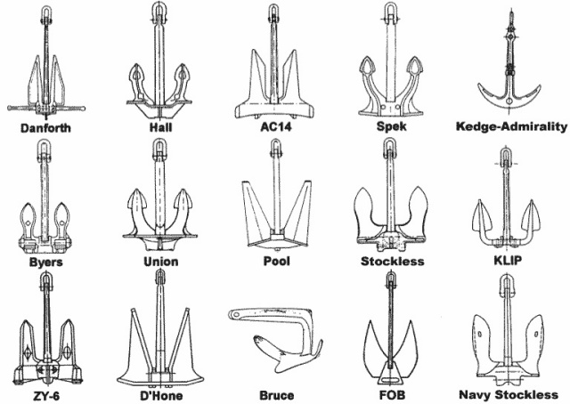 Diagram of various types of anchors, including Danforth, Hall, AC14, Spek, Kedge-Admirality, Buyers, Union, Pool, Stockless, KLIP, ZY-6,D'Hone, FOB , and Navy Stockless